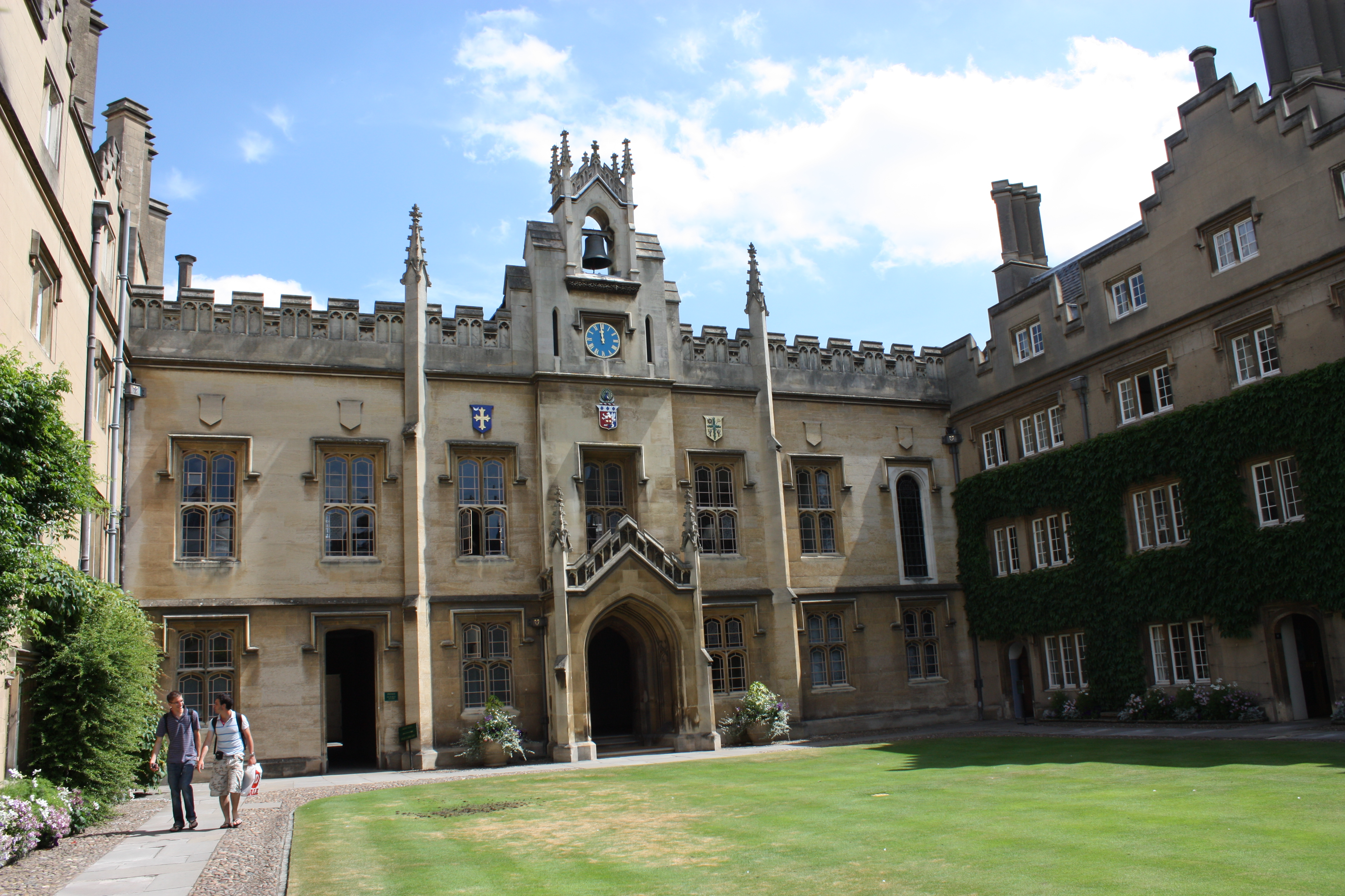 Sidney Sussex College, Sidney Street, Cambridge, Cambridgeshire, England, July 2010